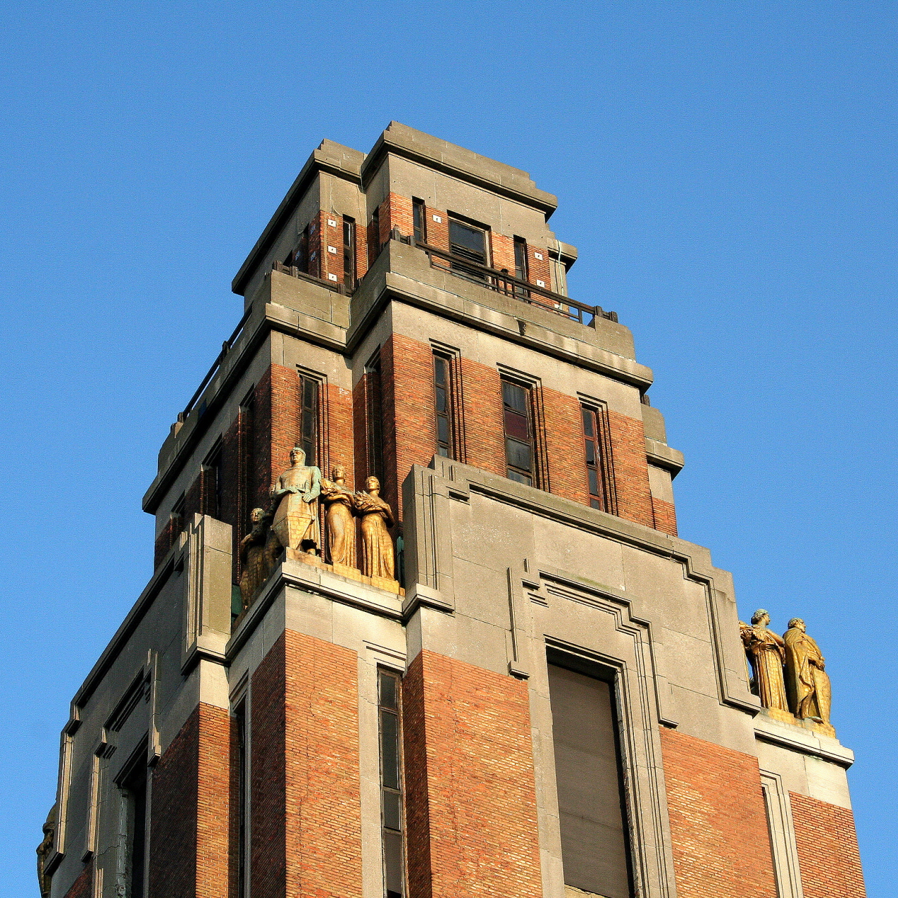 Forest (Belgium), the town hall.